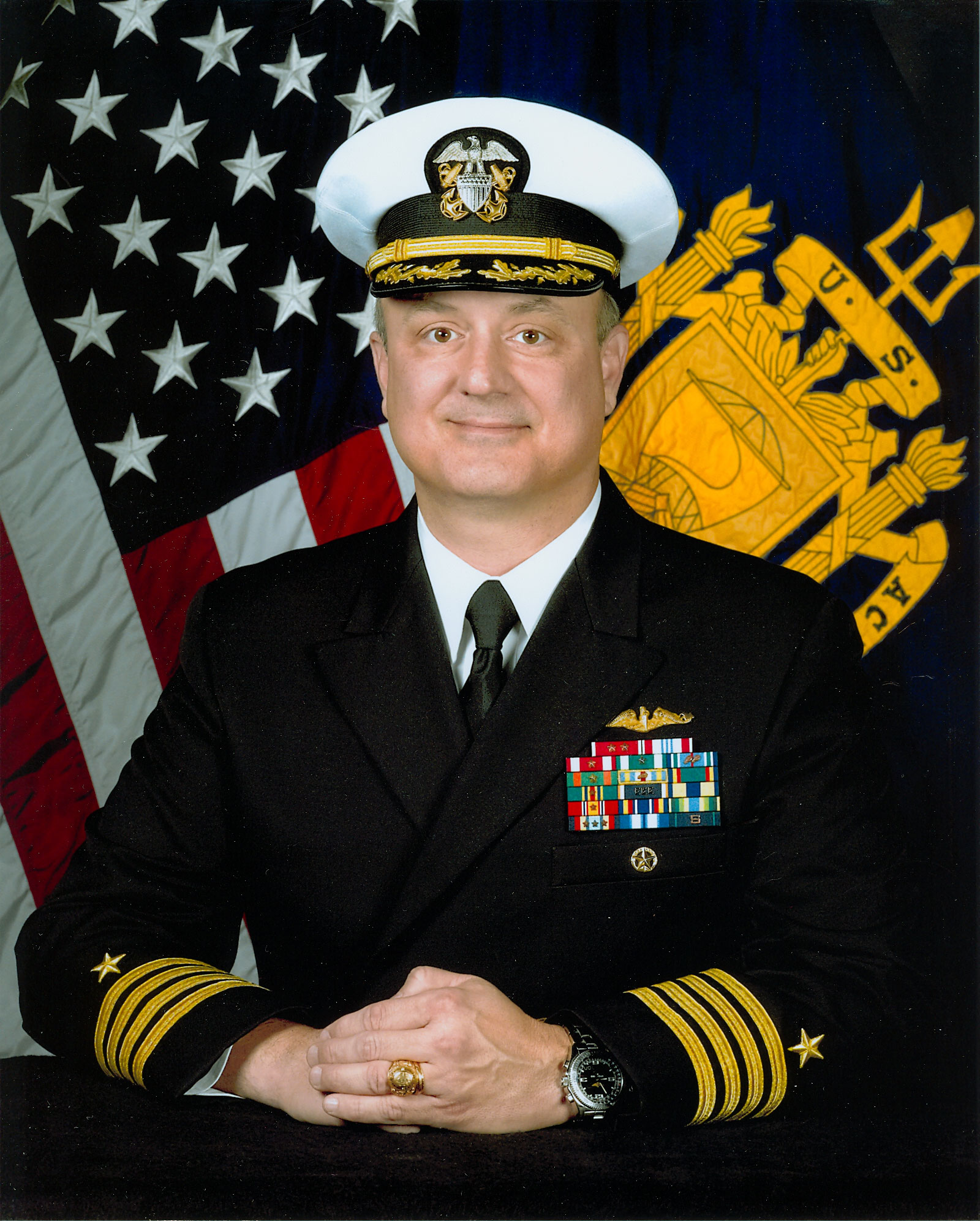 Capt. Robert E. Clark II